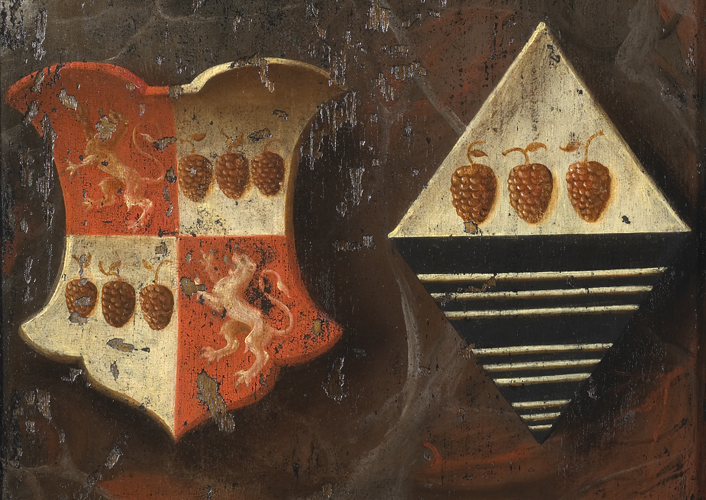 Job triptych, right outer wing, detail.